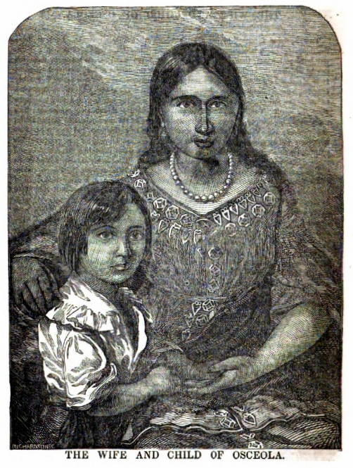 Pe-o-ka, wife of the Seminole chief, Osceola, and their son from "The Wife and Child of Osceola," Holden's Dollar Magazine 6, no 4 (October 1850): 591-592; a derivative of the so-called "Sedgeford Hall Portrait" once thought to represent Pocahontas and her son Thomas Rolfe.